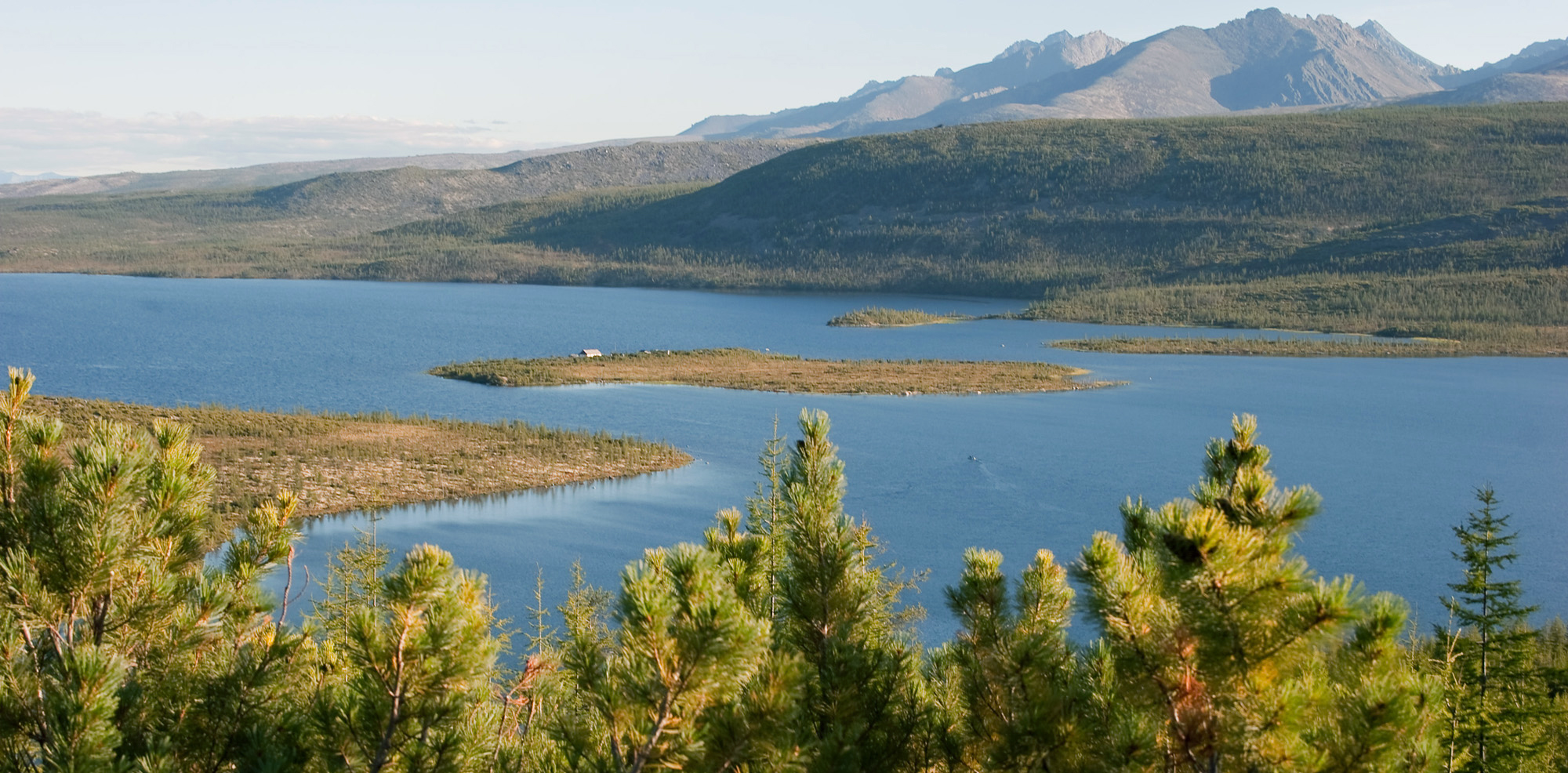 Jack London Lake — at Kolyma, Magadan Oblast, far eastern Russia. Pinus pumila in foreground, Taiga forests in backround.